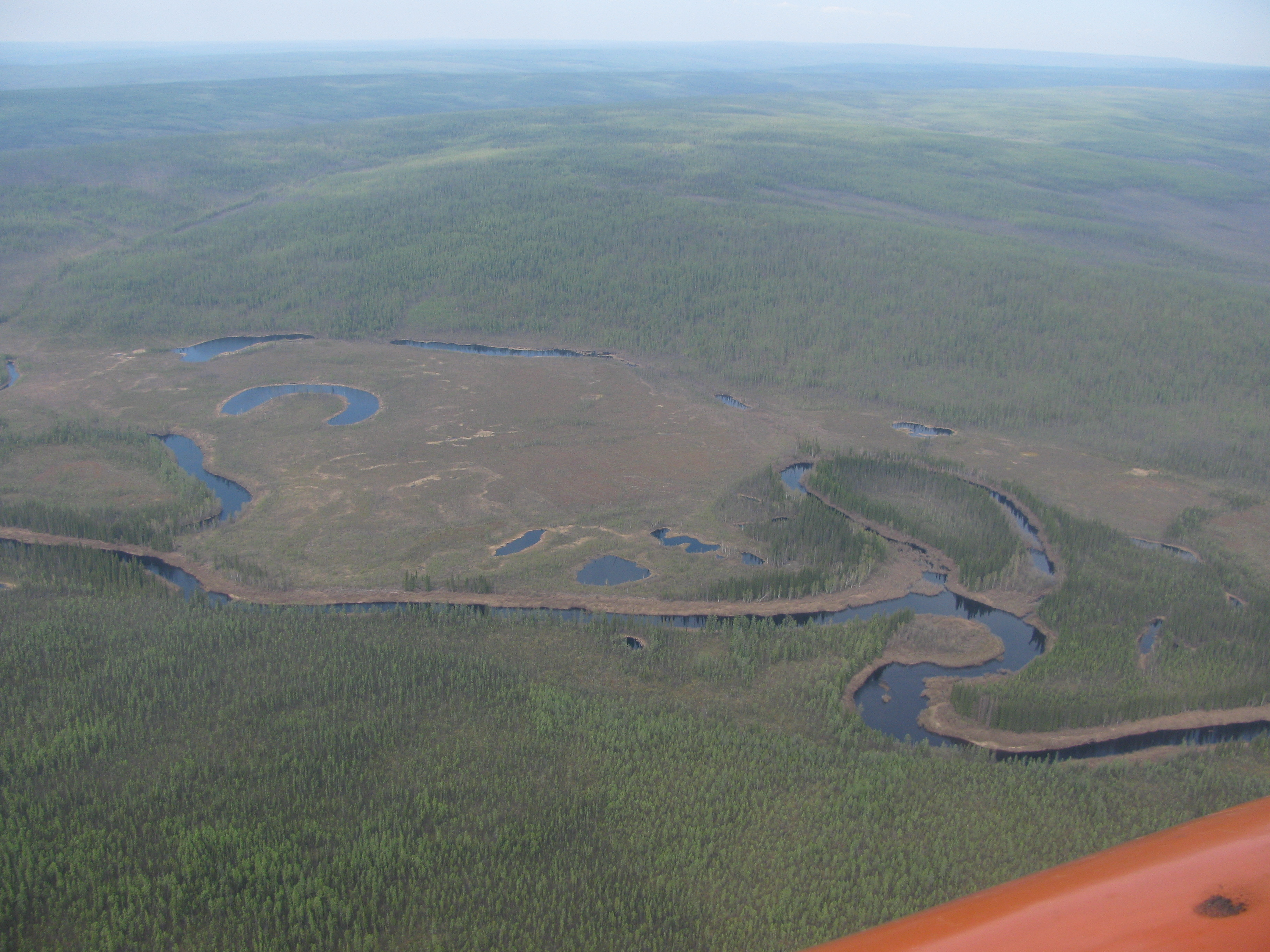 View on taiga from a helicopter, Evenkiysky District, Krasnoyarsk Krai, Russia